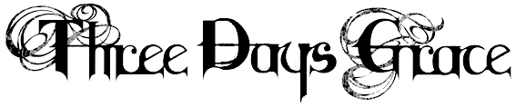 Official Logo